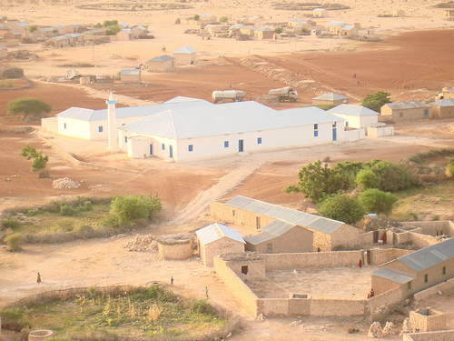 Ceel Garas, a village in the Dhusamarreeb district, Galguduud Region, central Somalia.